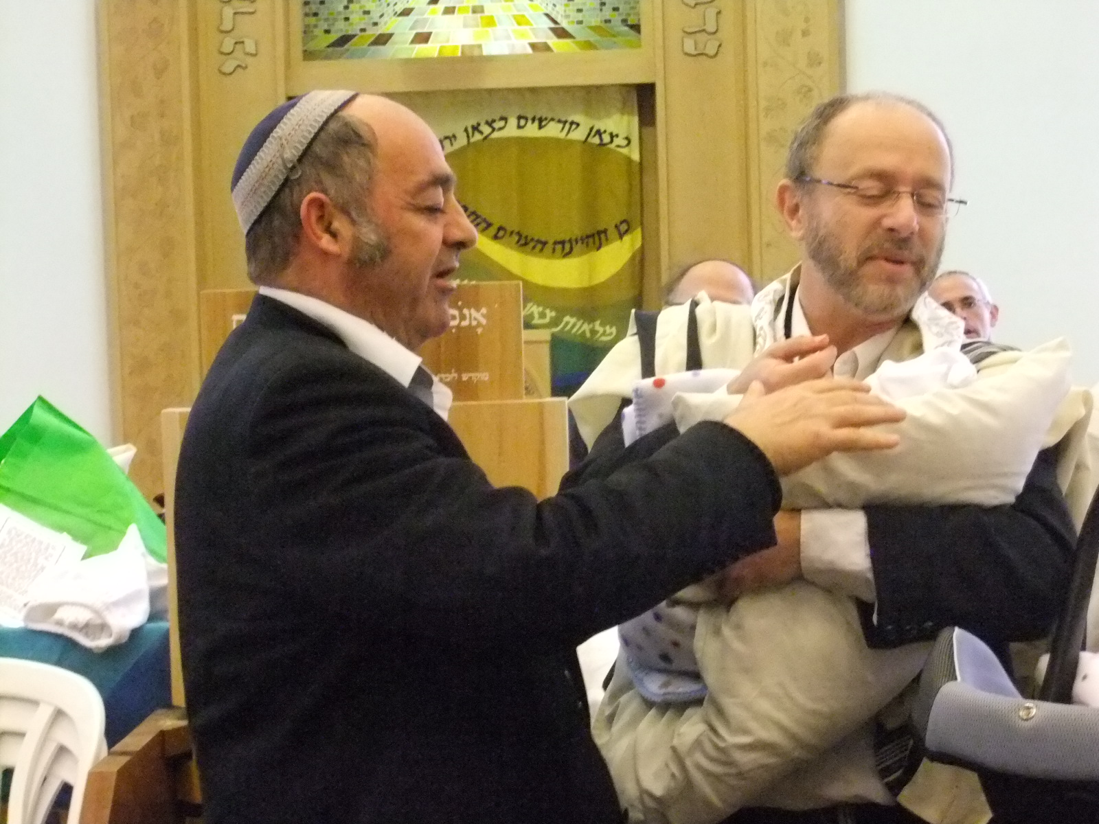 Rabbi Haim Sabbato blessing the baby with Birkat Kohanim at a brit mila